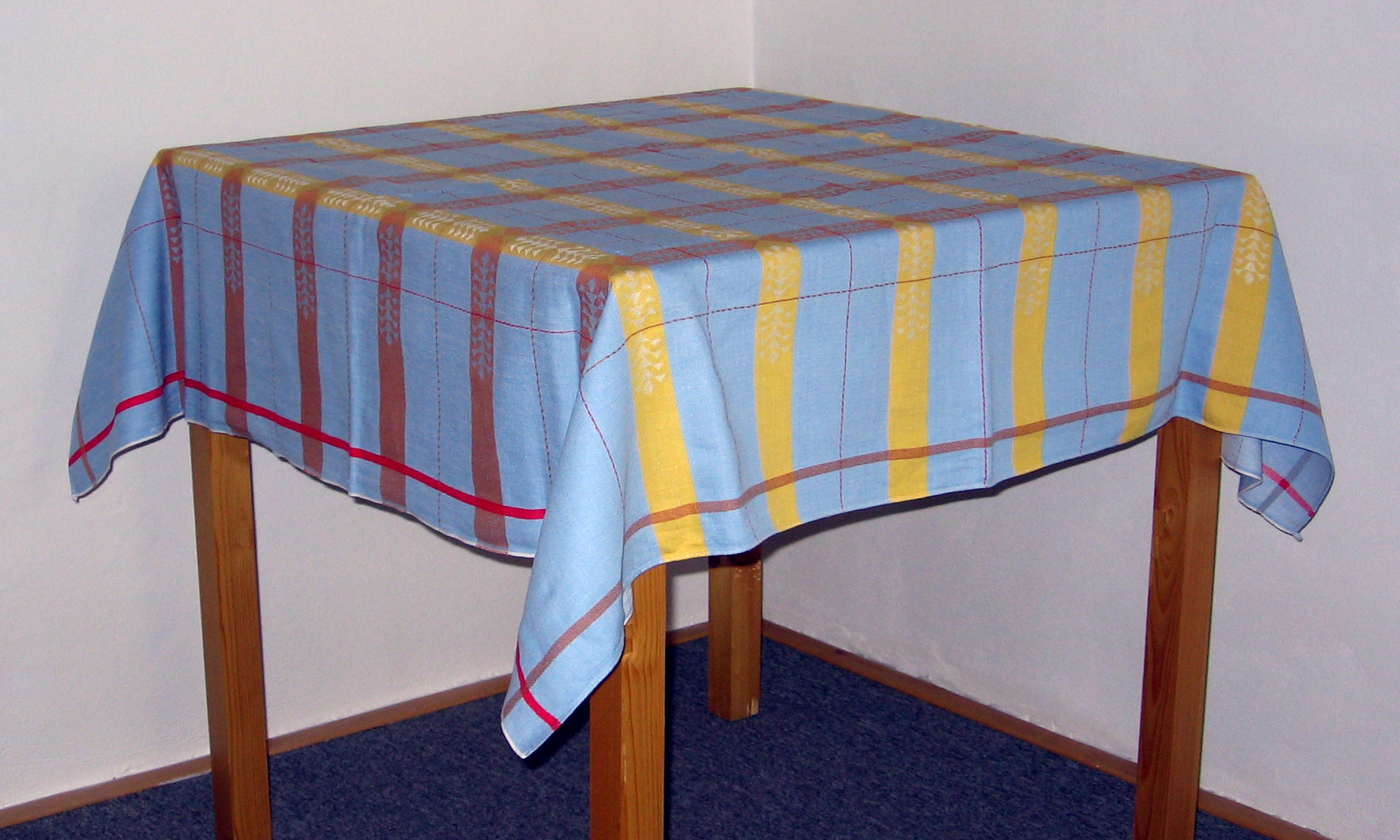 Tablecloth